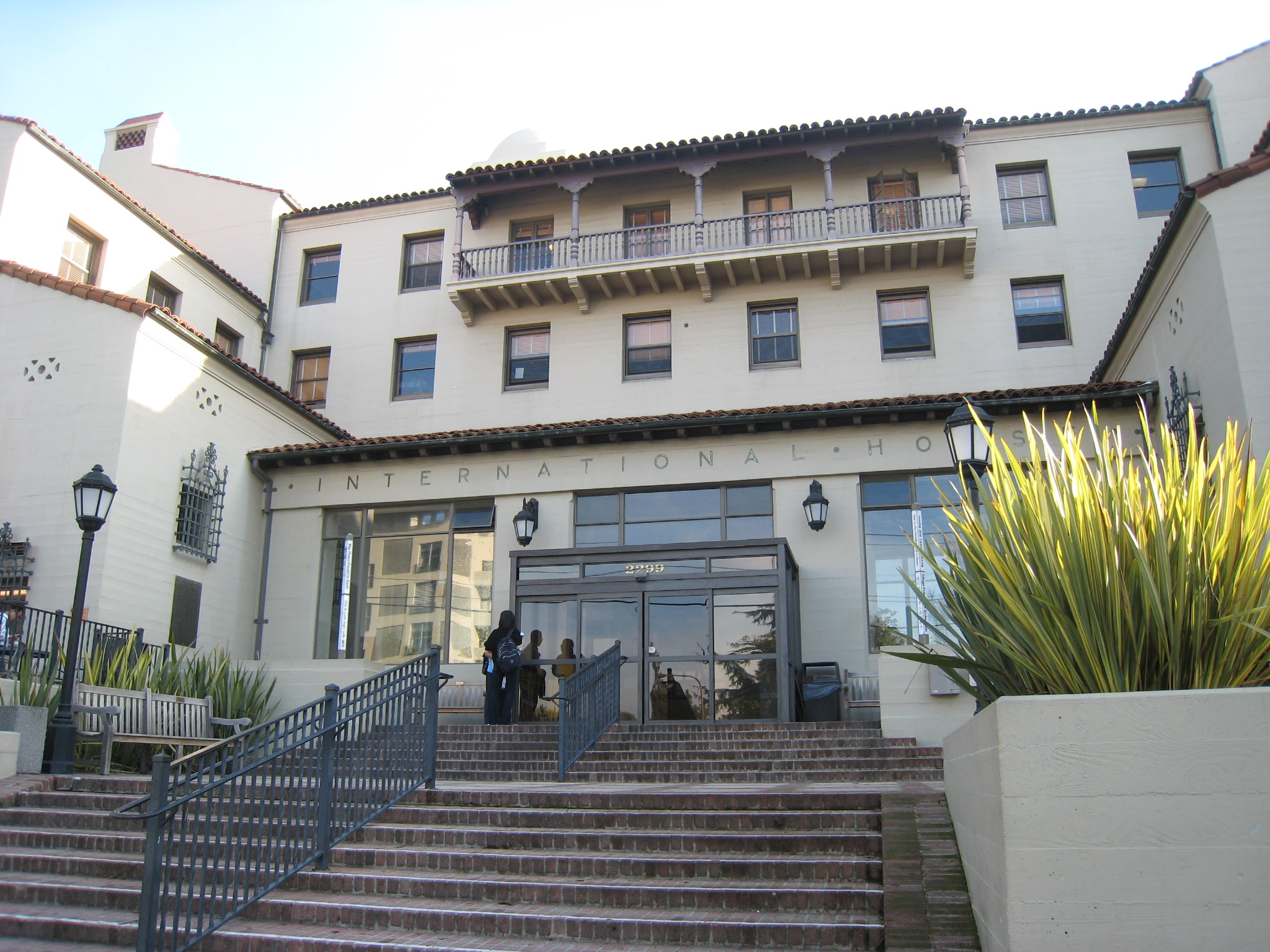 International House Berkeley